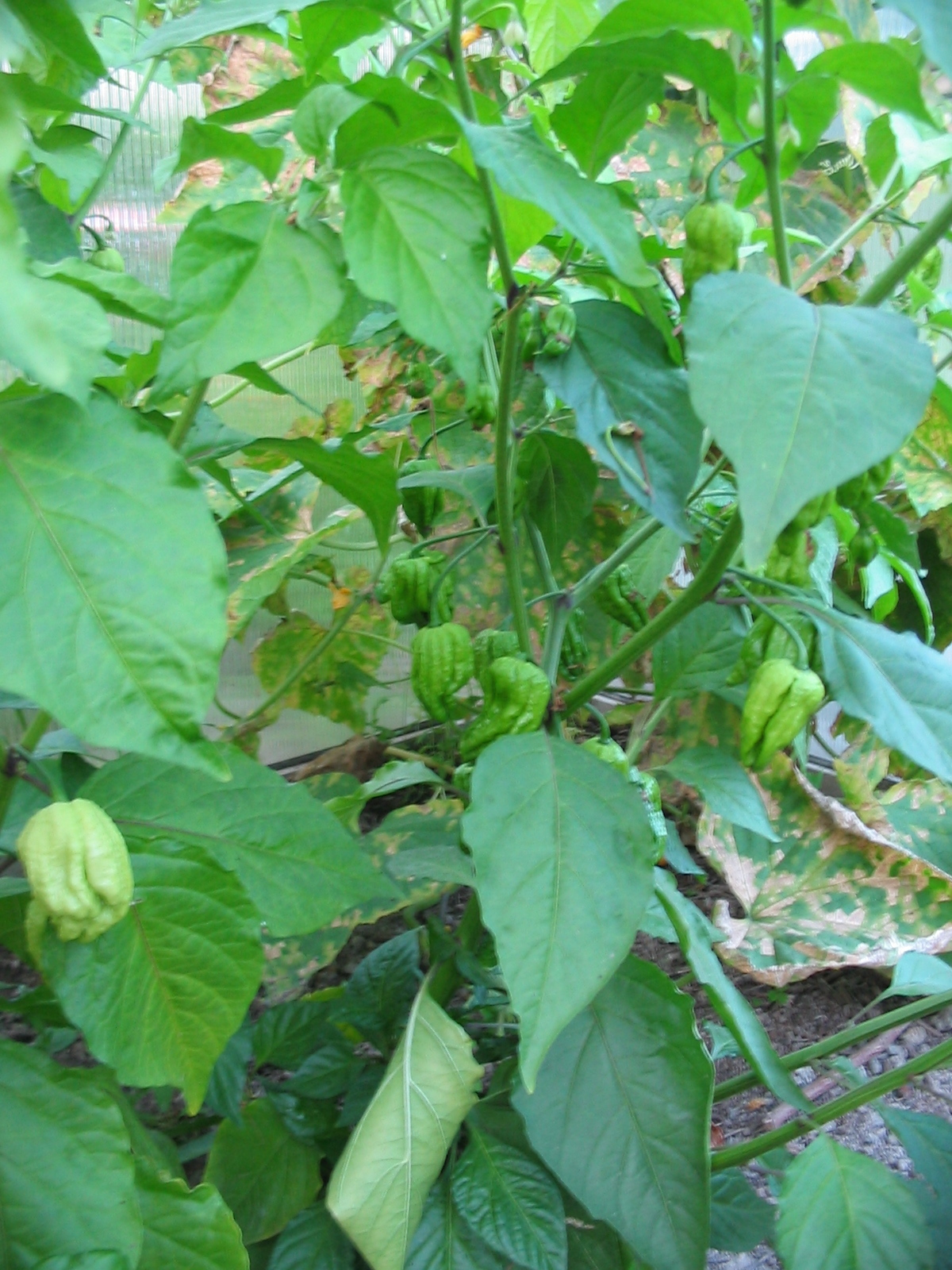 Bhut Jolokia Plant with unripened fruits